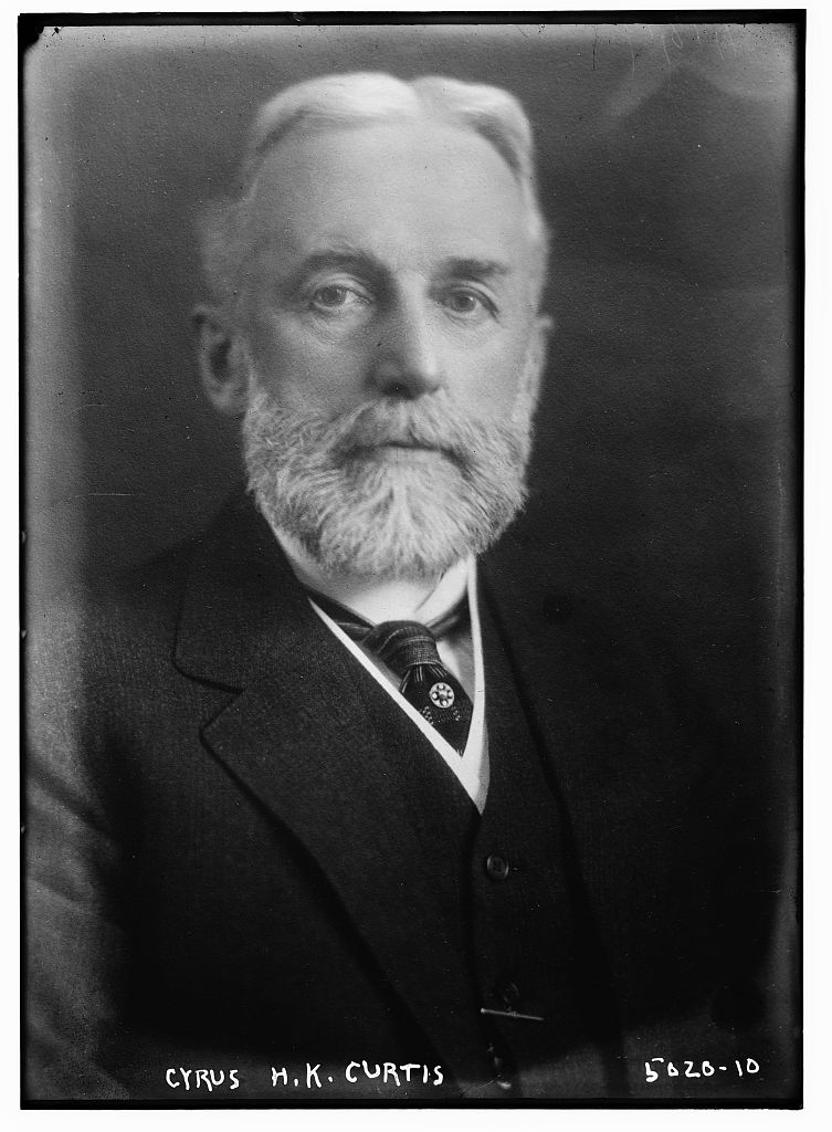 Cyrus Hermann Kotzschmar Curtis circa 1918